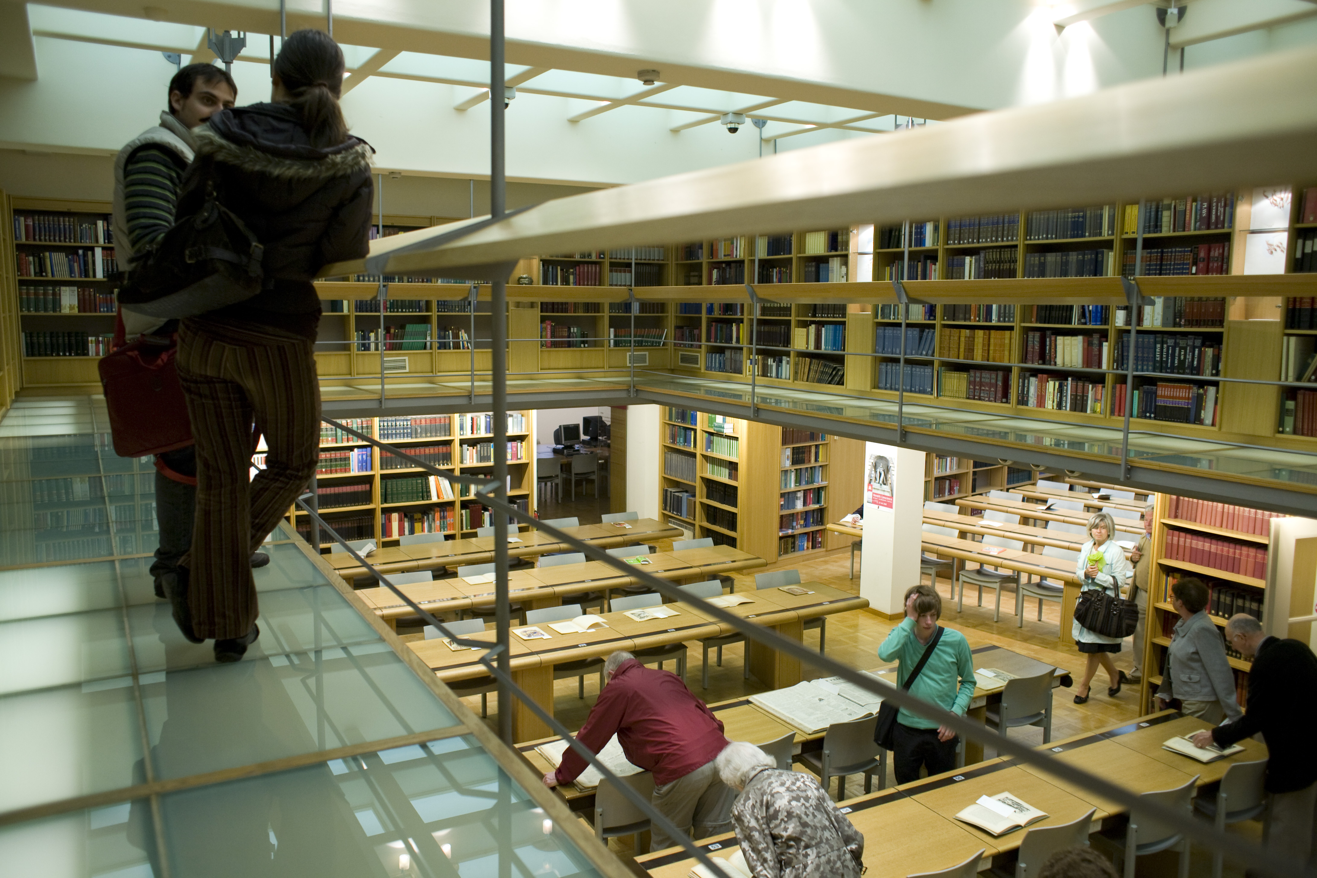 Leeszaal Hendrik Conscience